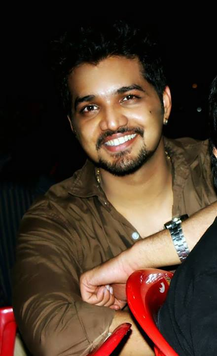 File photo of Rohit Nair in 2013